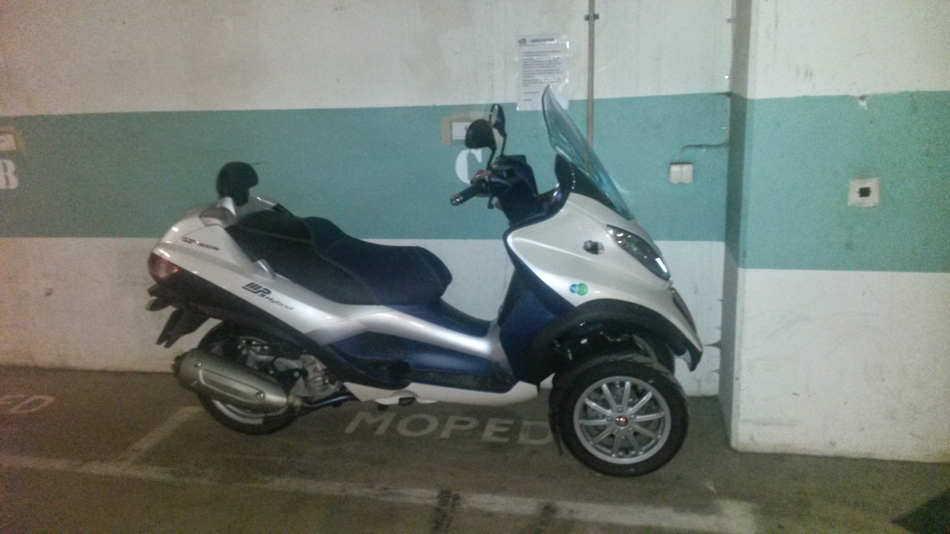 Piaggio MP3 300 Hybrid